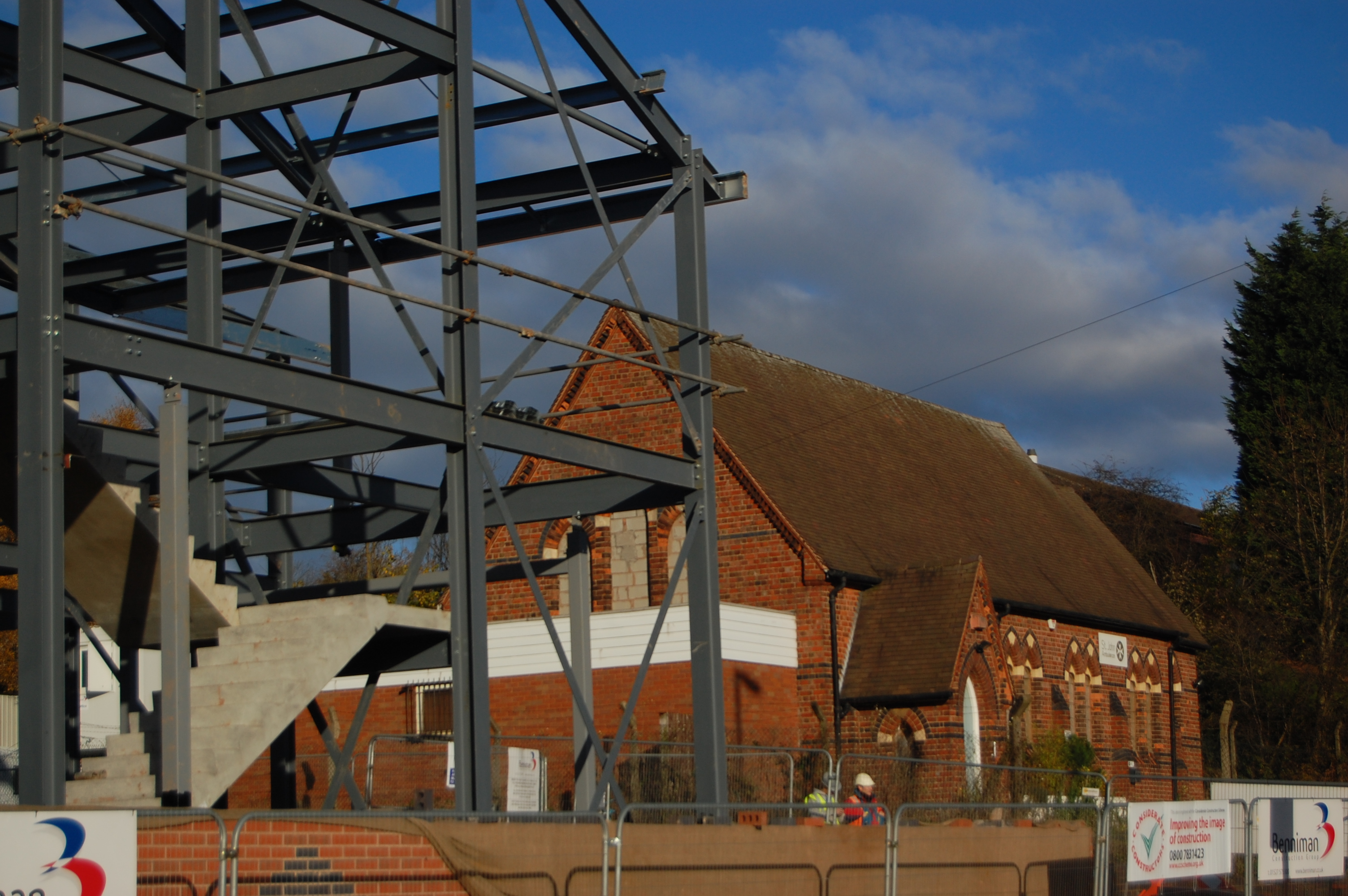 Construction of a factory on Shady Lane, Great Barr, Birmingham, England. The former chapel in the background was demolished shortly afterwards, to make way for the medical centre's car park